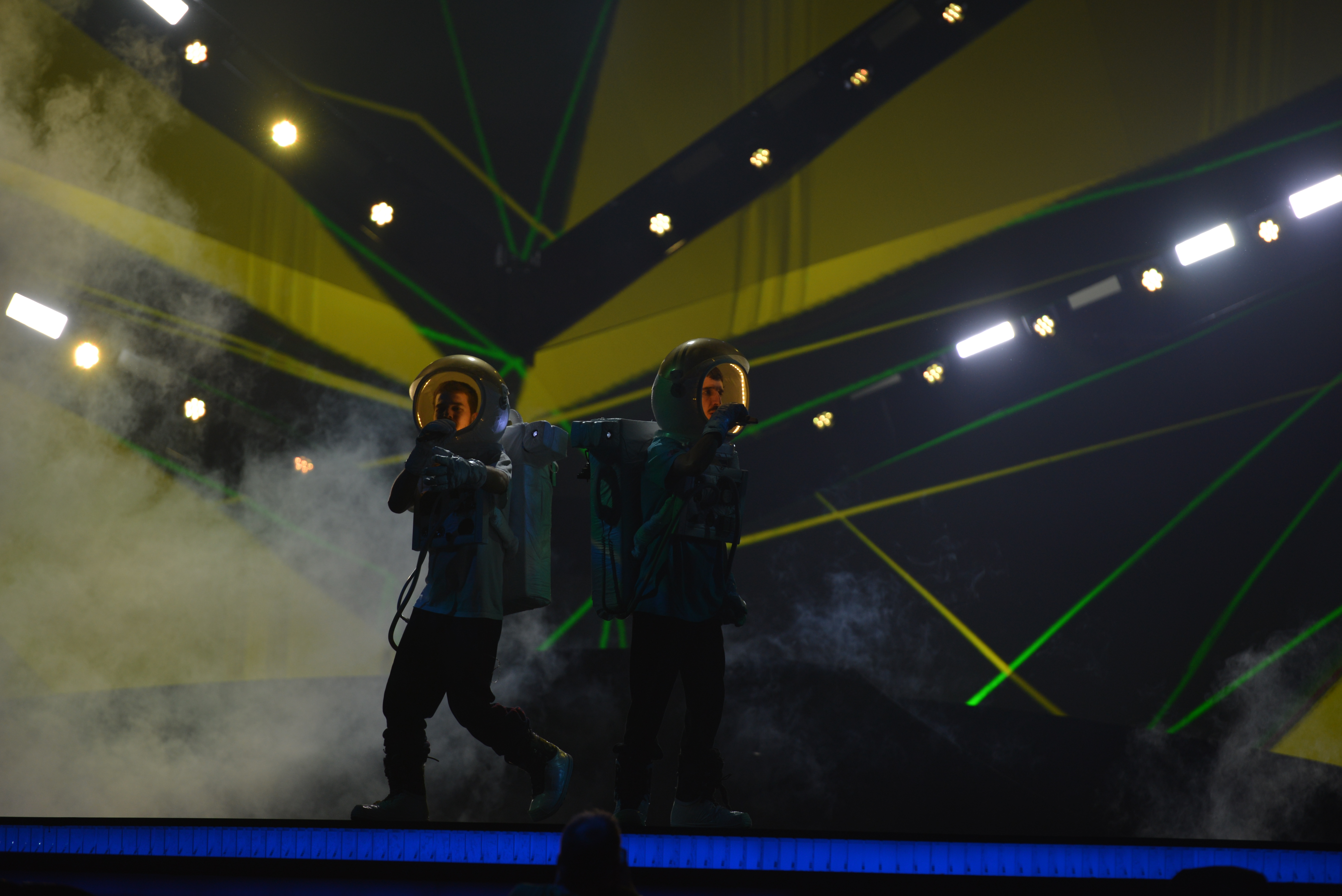 Who See representing Montenegro with the song "Igranka" (Игранка) during the first dress rehearsal of the first semi final of the Eurovision Song Contest 2013 in Malmö. (Help translate this text)